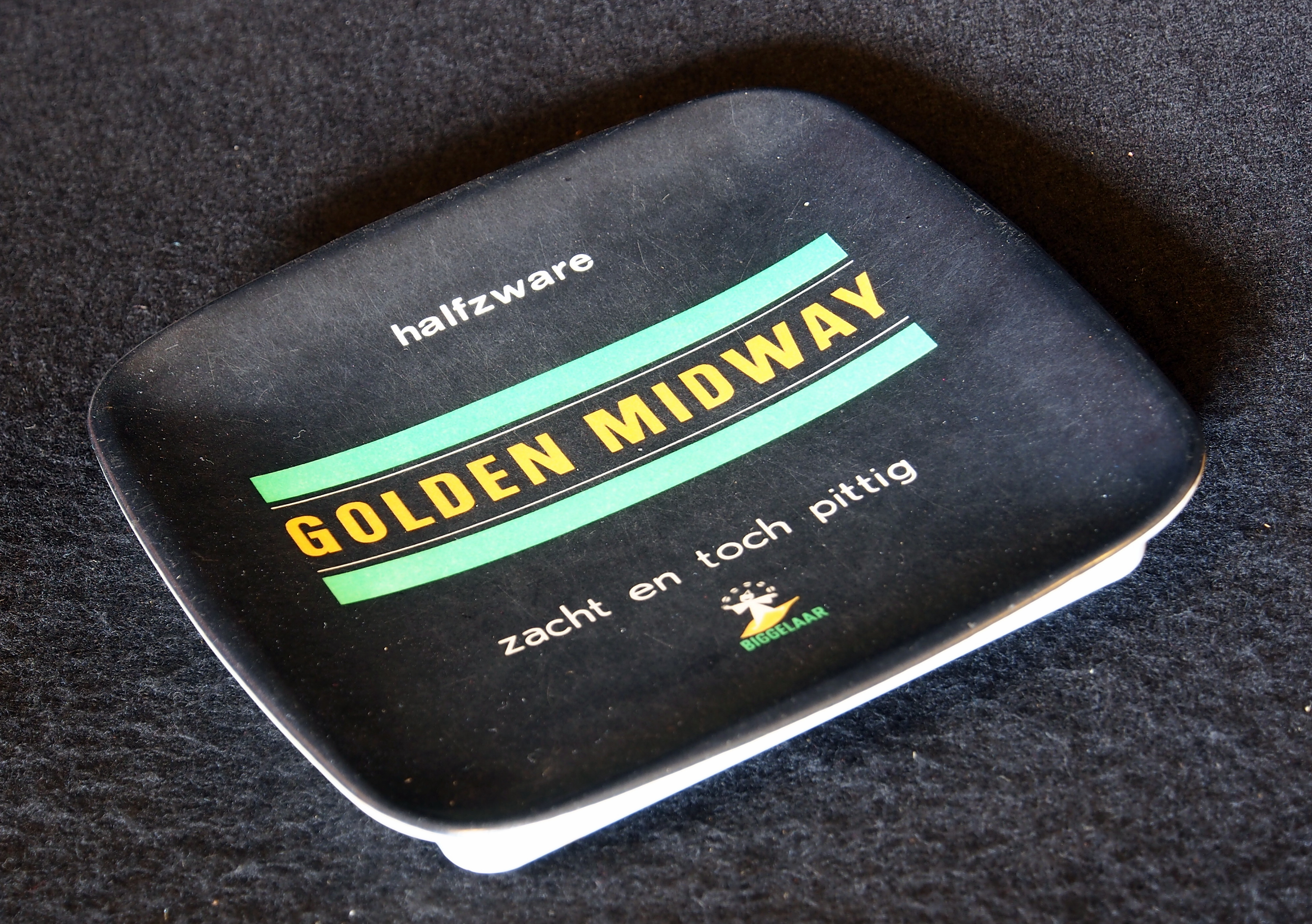 Photographed at the Museum in den Halven Maen , The Netherlands. Photo of a very old product that is not produced and not sold anymore.